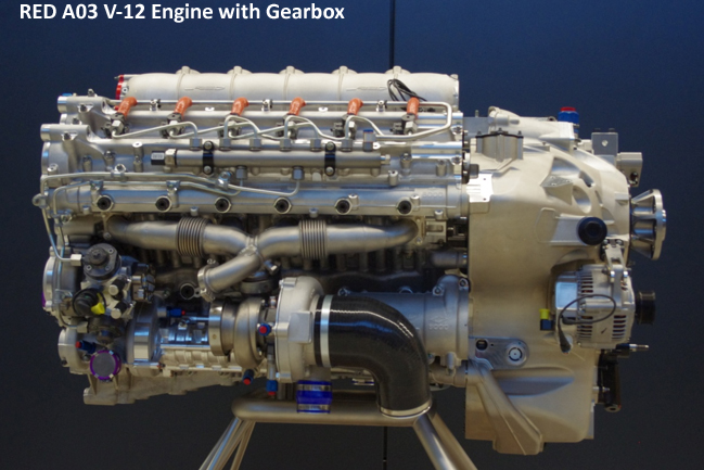 Side view of RED A03 V-12 engine